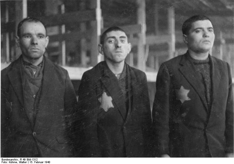 Litzmannstadt. Three criminal prisoners in Enhanced Criminal Police (ger. KRIPO) Prison in Radogoszcz dressed in jackets with Star of David used by the inhabitants of the Ghetto Litzmannstadt.